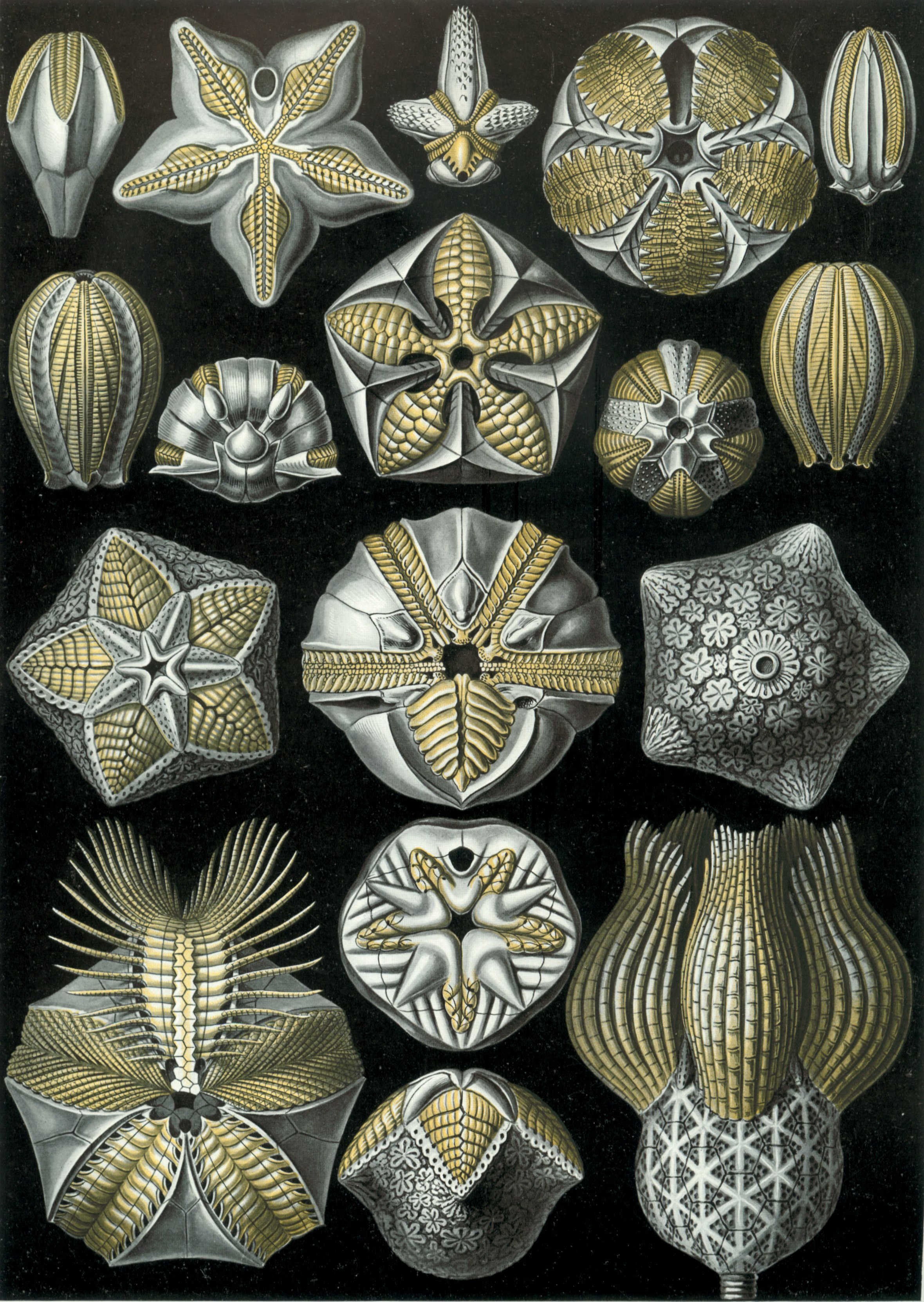 See here for index to numbers. Pentremites pyriformis (Say) = Pentremites pyriformis Say, 1825, from the side Pentremites orbignyanus (Koninck) = Orophocrinus orbignyanus, from above Pentremites sp. (Arnold Lang) = Pentremites sp.?, from above; brachioles extended (top), folded back (center), removed (below) Zygocrinus cruciatus (Bronn) = Astrocrinus cruciatus (Bronn, 1848)?, from above Orophocrinus stelliformis (Etheridge) = Orophocrinus stelliformis (Owen and Shumard, 1850), from above Phaenoschisma acutum (Etheridge) = Phaenoschisma acutum (Sowerby, 1834), from above Elaeacrinus olivanites (Troost) = Nucleocrinus sp.?, from the backside Elaeacrinus Verneuili (Römer) = Nucleocrinus verneuili (C.F.Roemer, 1851) (8a: from the backside, 8b: from below, stalk removed) Codonaster trilobatus (Bather) = Codaster acutus McCoy, 1849, from above Eleutherocrinus Cassedayi (Shumard) = Eleutherocrinus cassedayi Shumard & Yandell, 1856 (10a: from above, 10b: from below, 10c: from the side) Asteroblastus stellatus (Fr. Schmidt) = Asteroblastus stellatus Eichwald, 1862 (11a: from above, 11b: from below, 11c: from the backside) Asteroblastus Volborthi (Fr. Schmidt) = Asteroblastus volborthi (F.Schmidt, 1894), from the side with brachioles shown